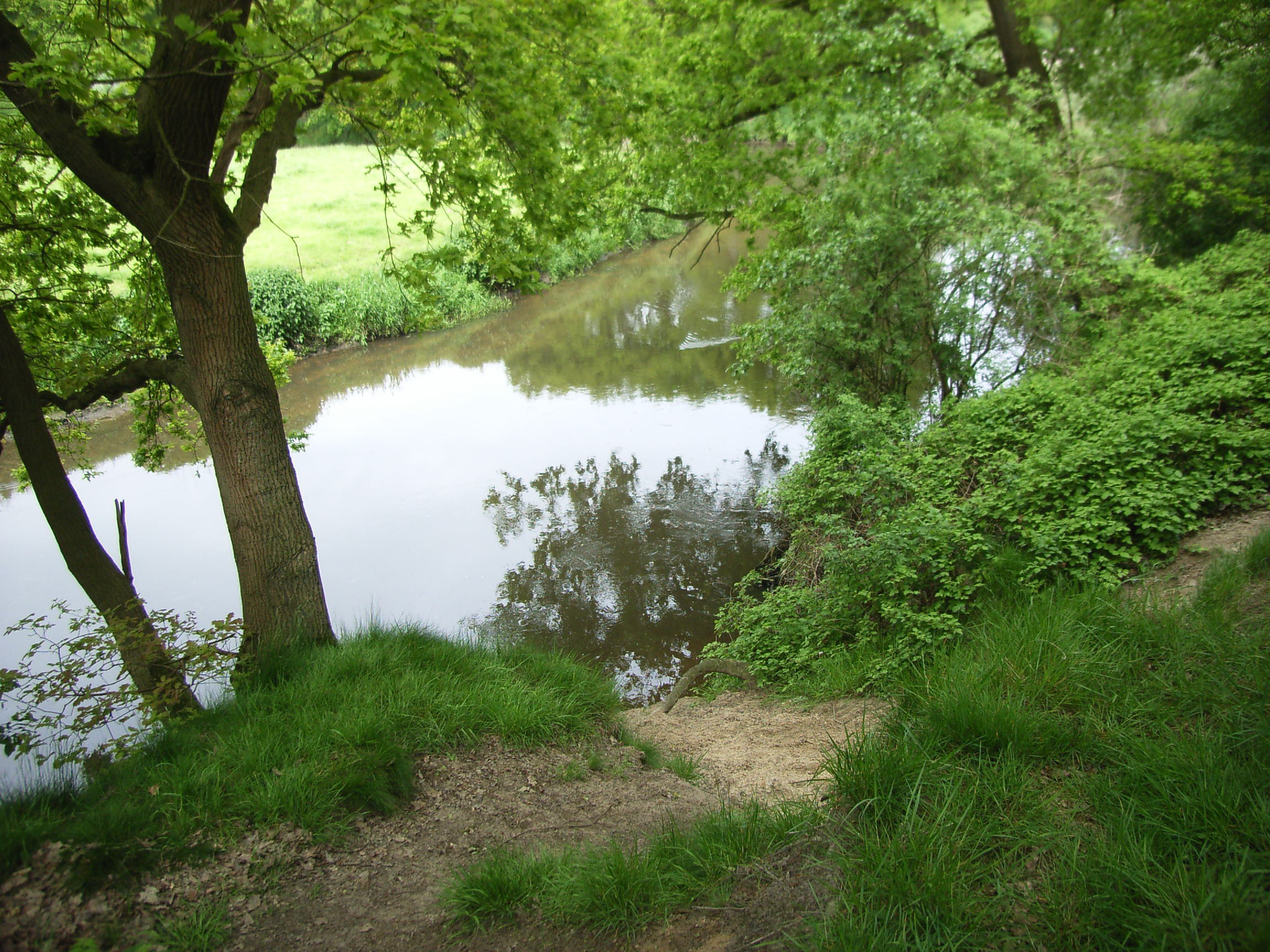 Vieuw on the river Dommel at wolfswinkel north of Eindhoven